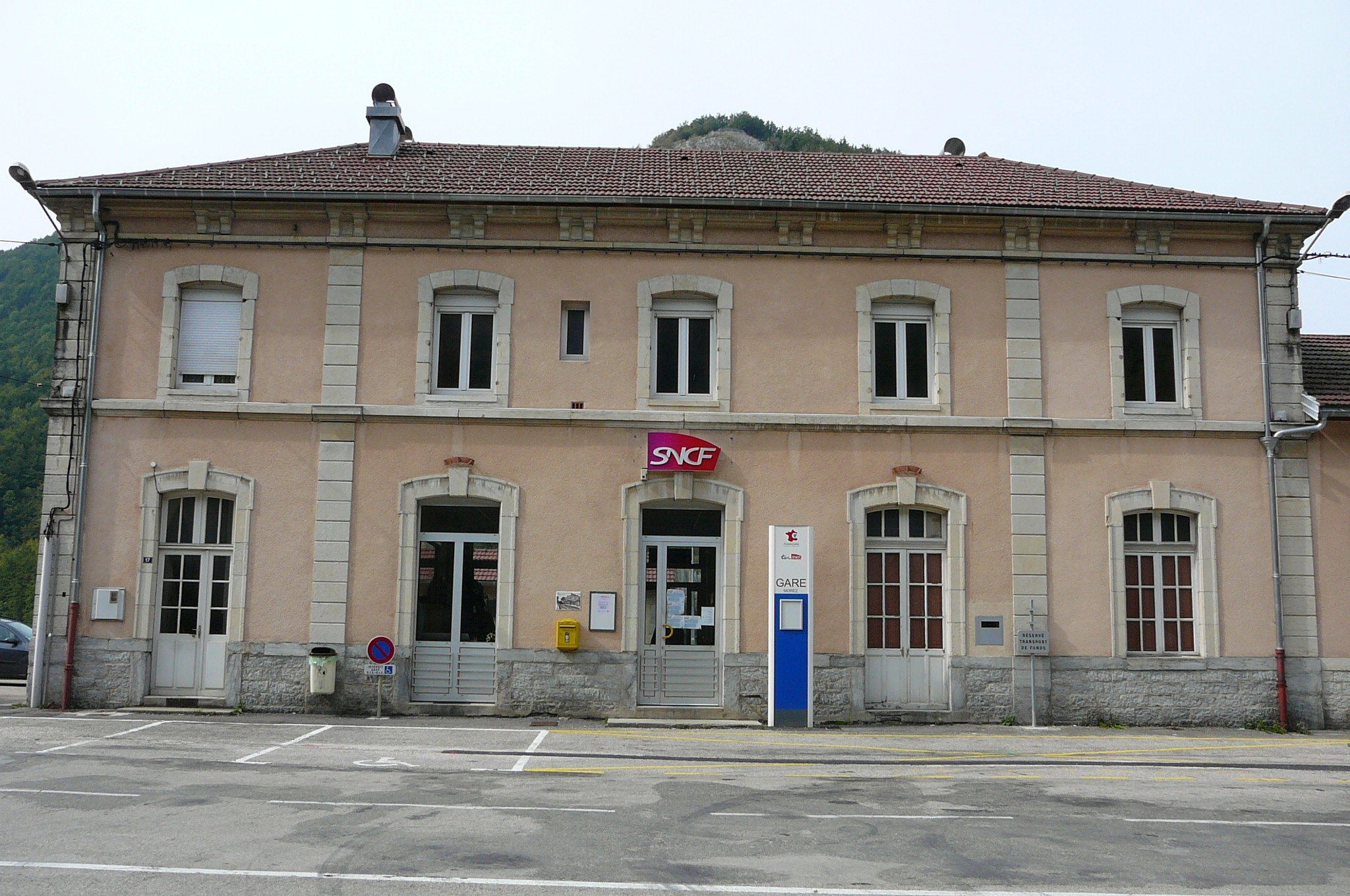 Morez's station